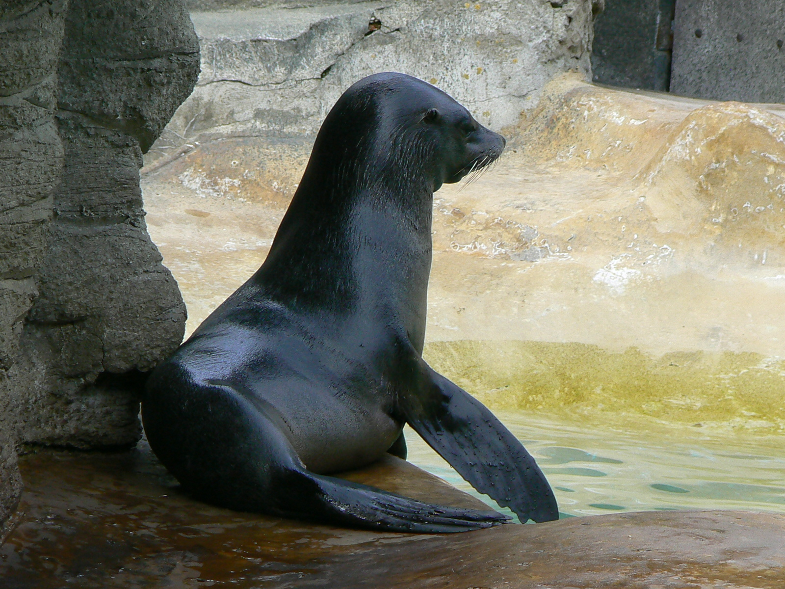 Arctocephalus australis/ south american fur seal/südamerikanischer seebär